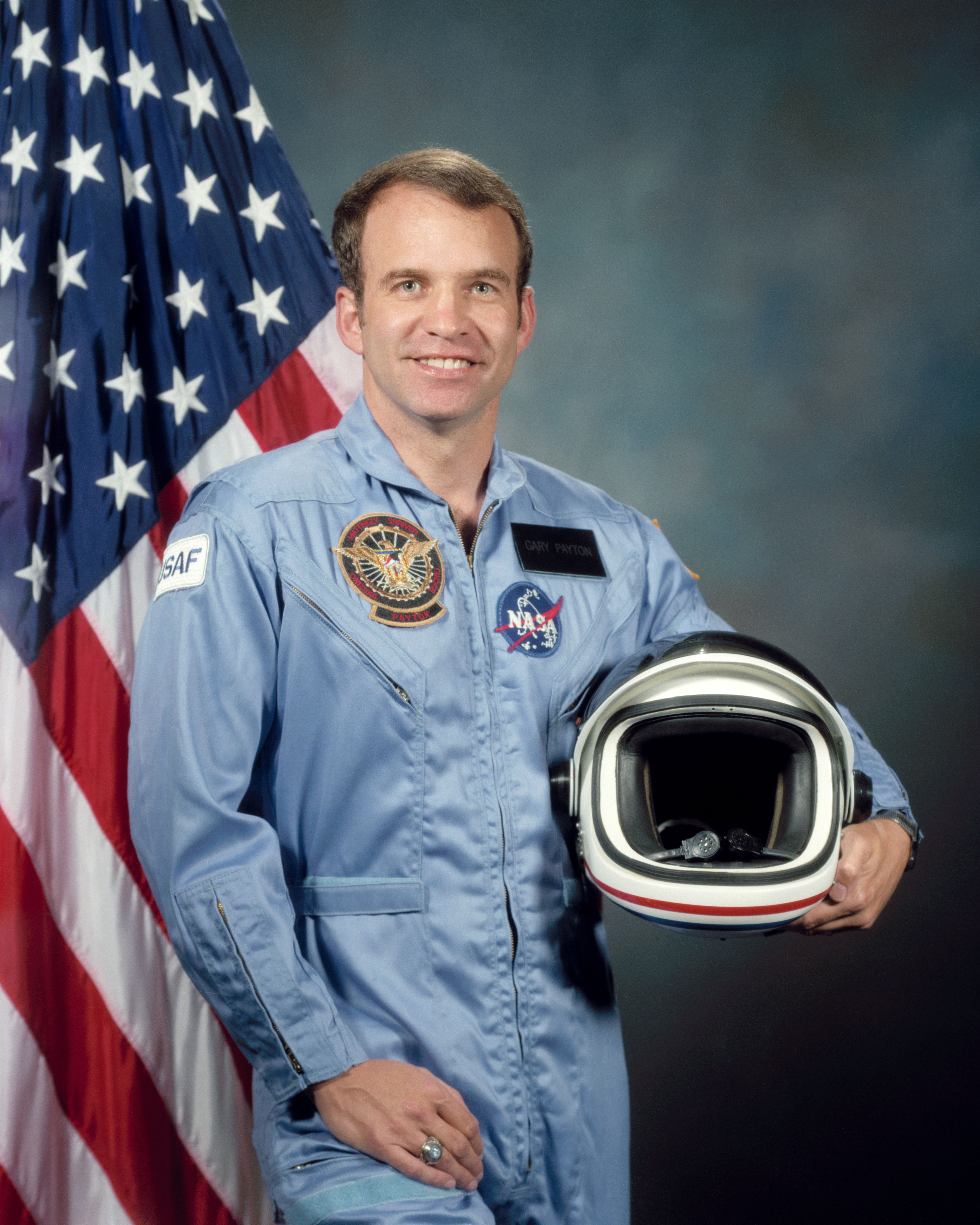 portrait astronaut Gary Payton